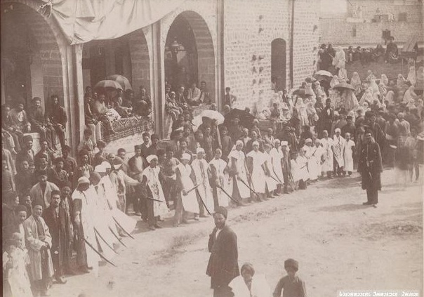 Ashura in villages of Baku.